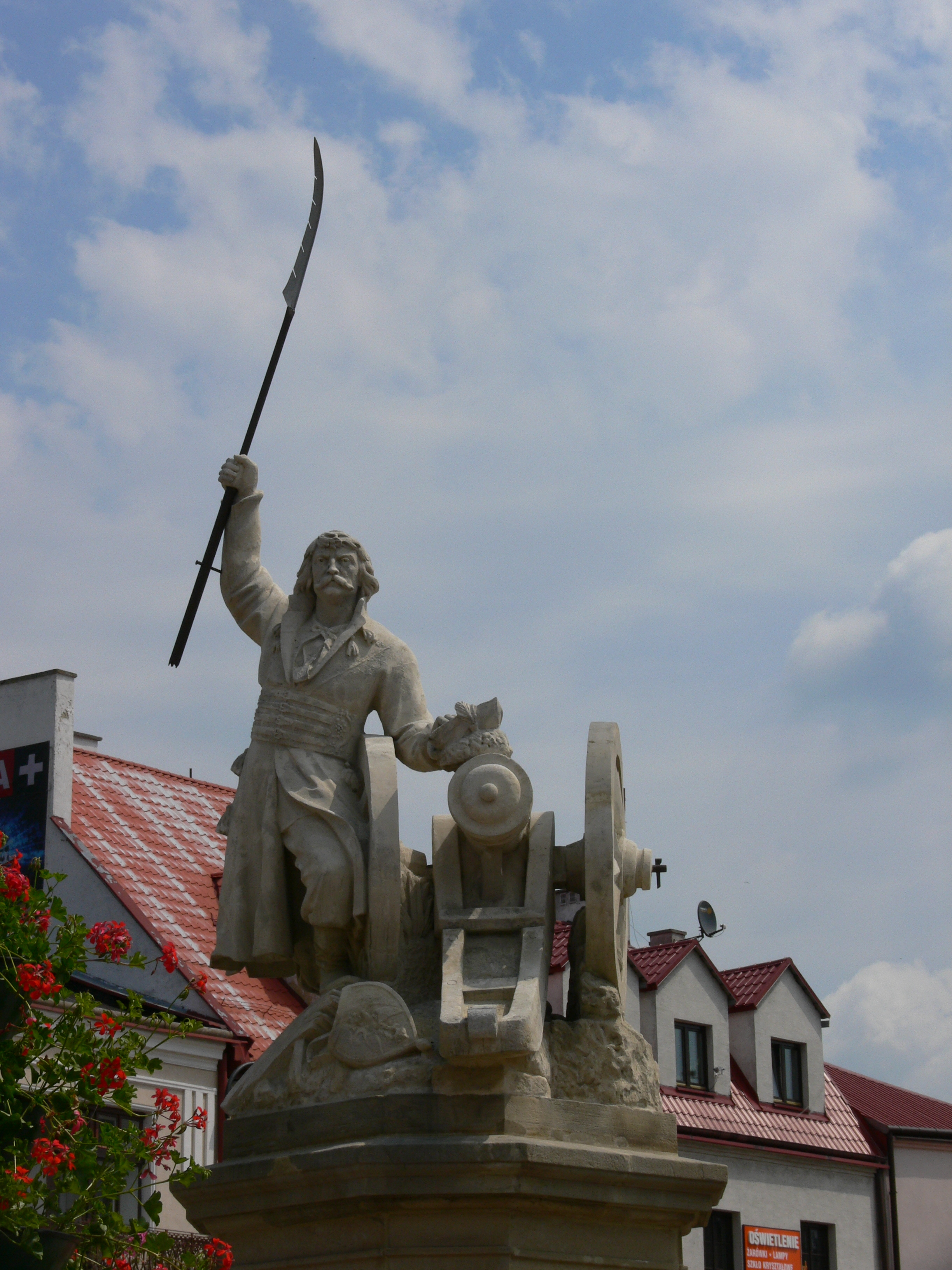 Glowacki monument located in Tarnobrzeg, Poland.